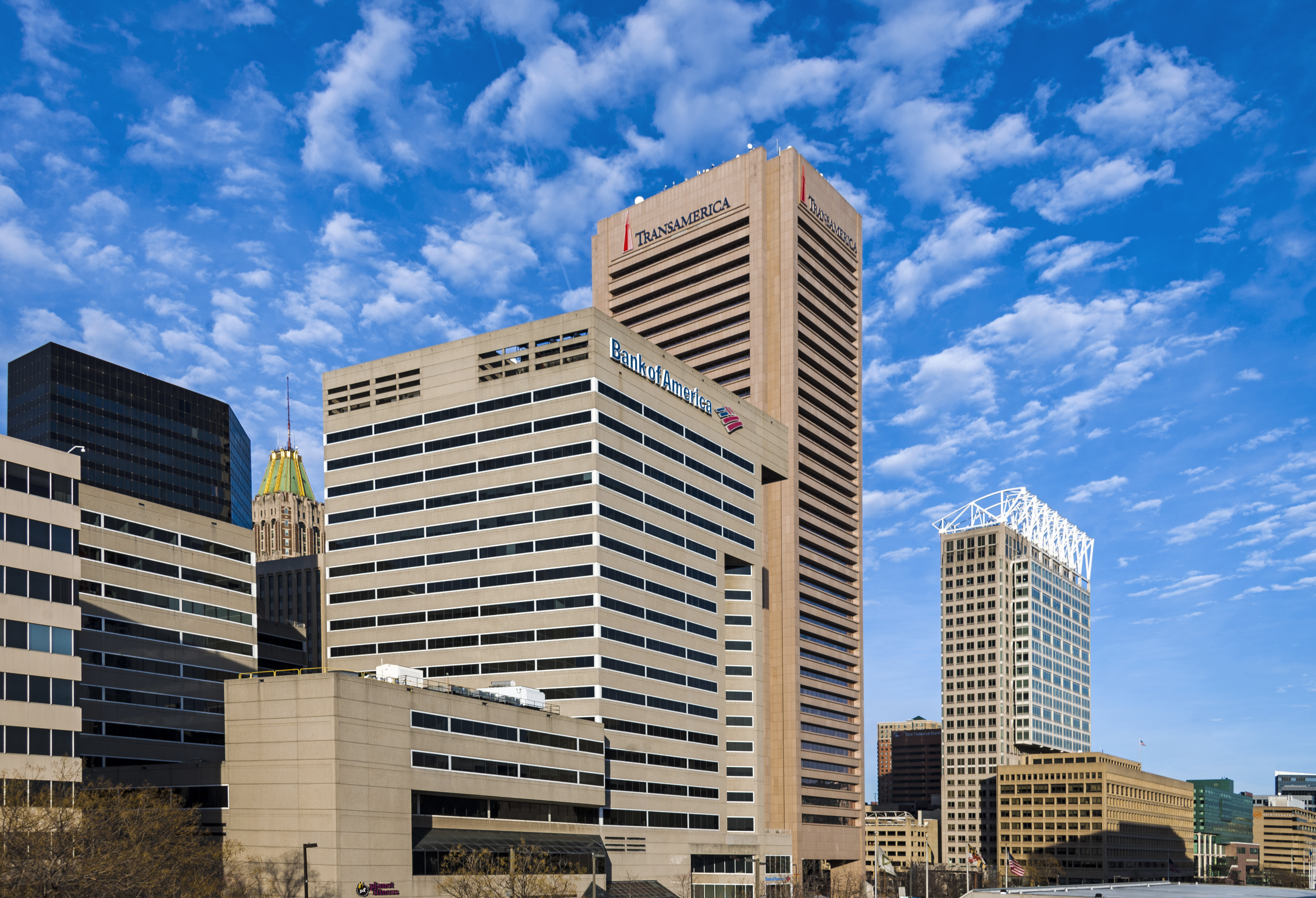 Skyscrapers on East Pratt Street in Baltimore's Inner Harbor, including the Transamerica Tower Bank of America Center and 100 East Pratt Street, seen from the balconies of the Baltimore Convention Center